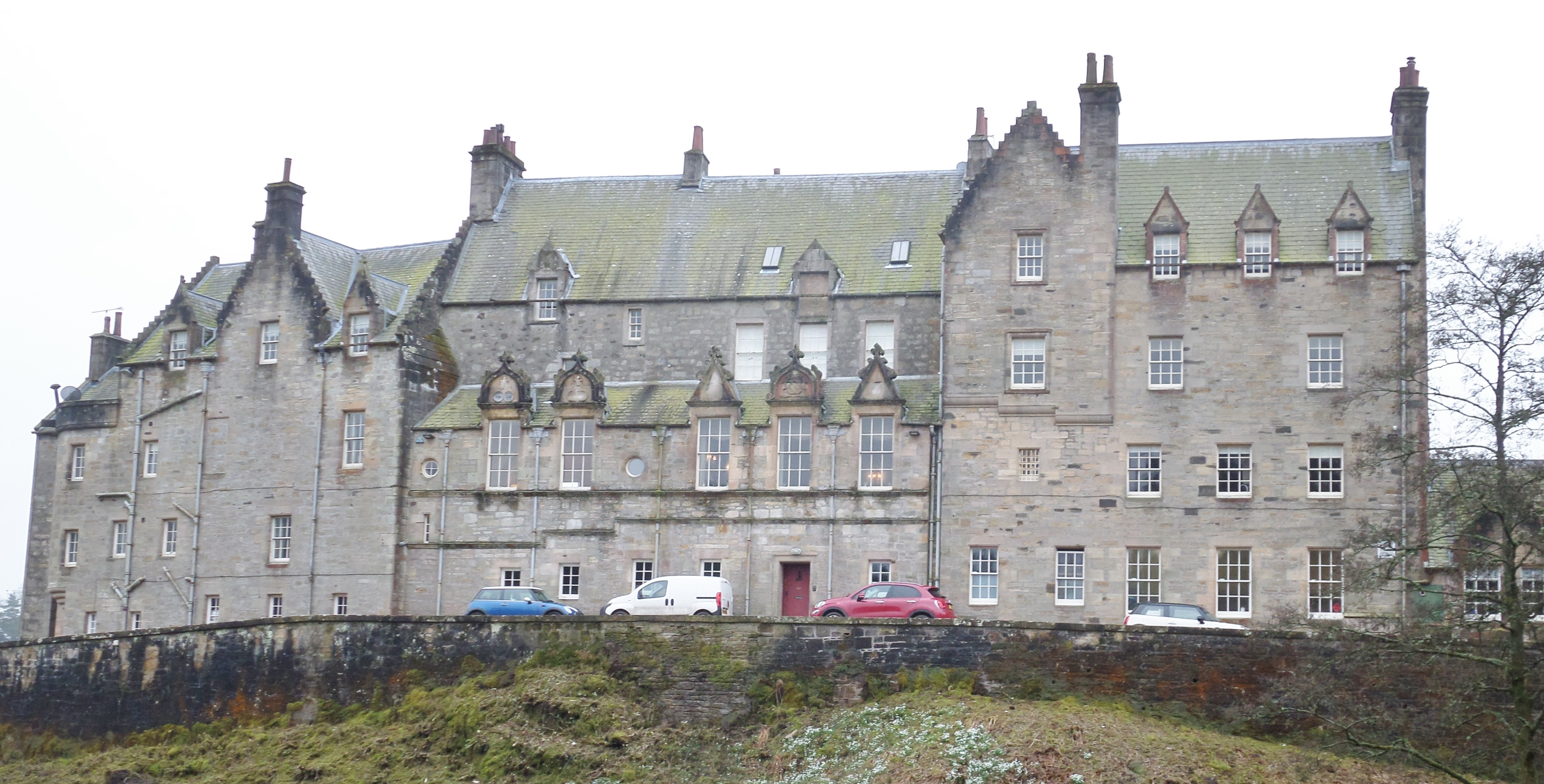 Blair Castle, Dalry, North Ayrshire, Scotland. View from the north.